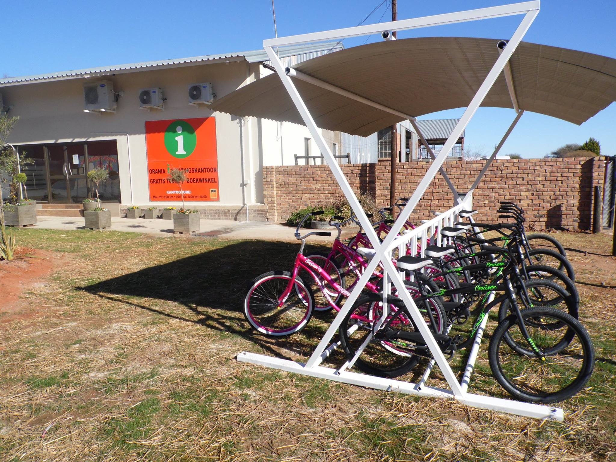 Bike share scheme for residents and visitors in Orania